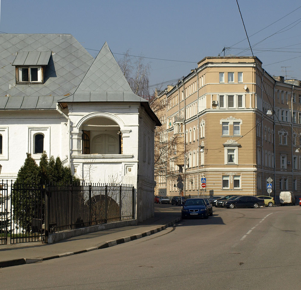 Spiridonovka Street 3/5 (left) and 9 (right), Moscow.